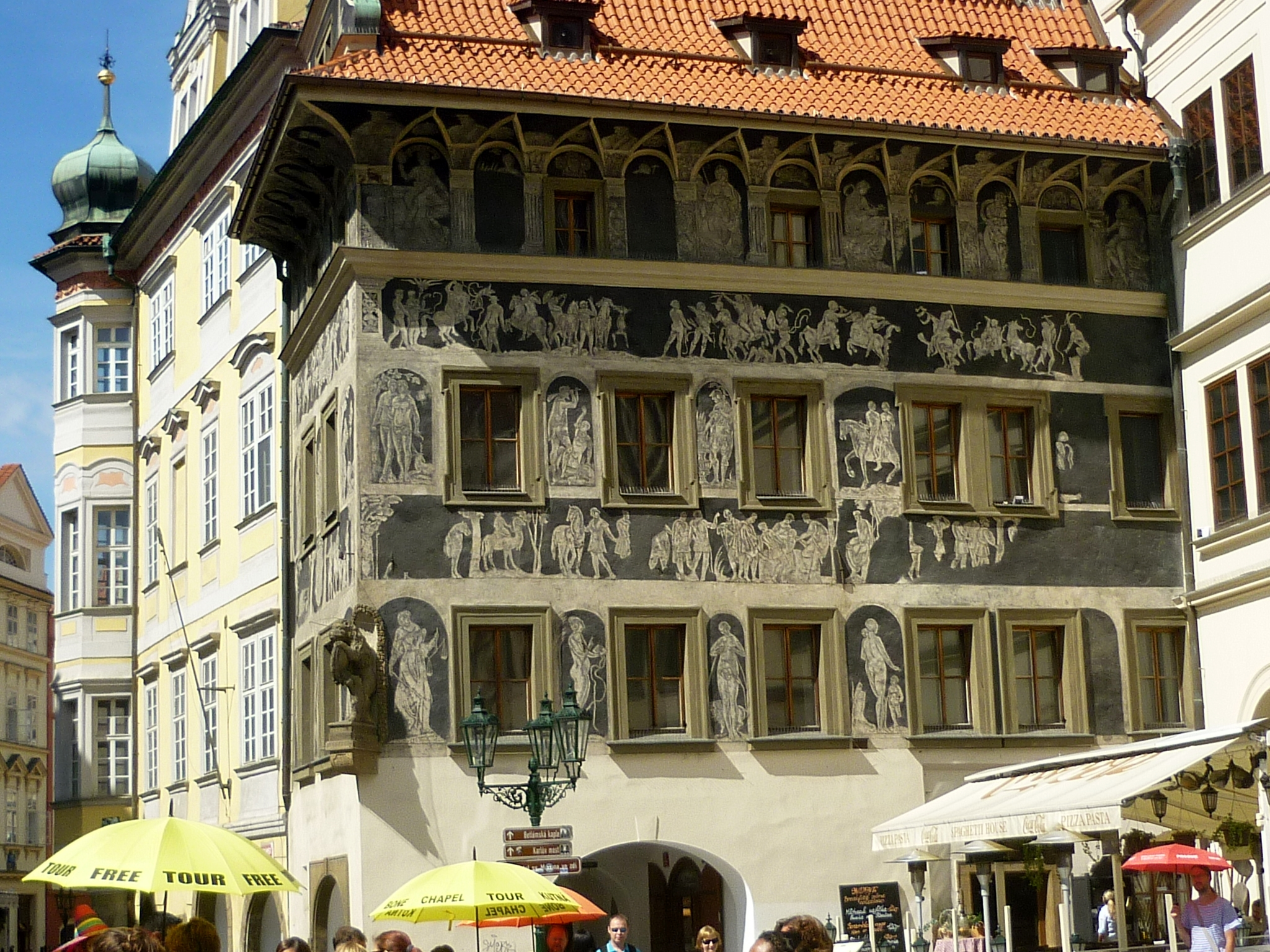 Birth Place Franz Kafka